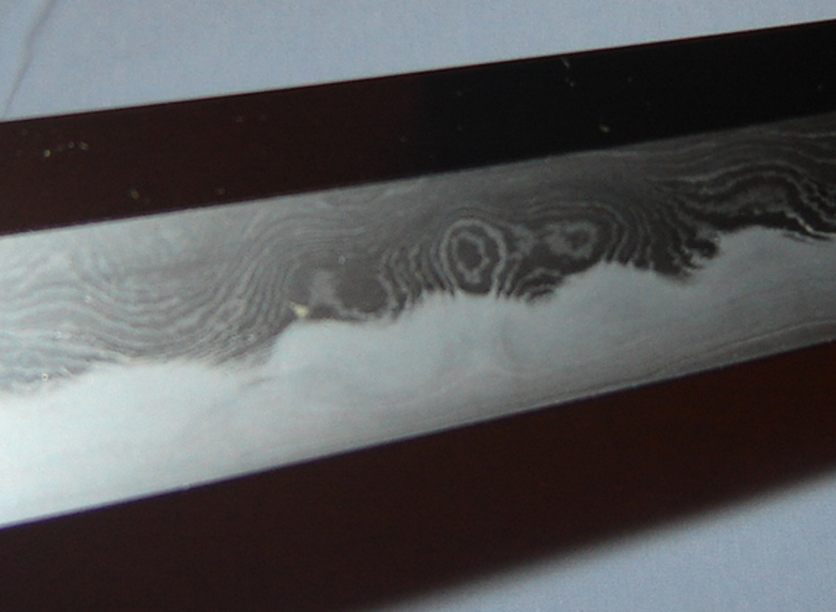 Katana - Showing alternating layers of hardenability. In this photo, lighter colored layers have a higher carbon content than the darker layers. In reality, which layer is lighter or darker depends on the angle it is viewed from compared to the lighting. Visible on the right hand side of the photo is the nioi, which can be seen as a bright thin line about a millimeter or two wide surrounding the hardened edge of the yakiba. The nioi is made up of niye, which are single martinsite crystals surrounded by pearlite. The streaks of niye that whisp away from the hardened edge result from the forged in layeres of different steel.[1] References ↑ "A History of Metallography" by Cyril Smith